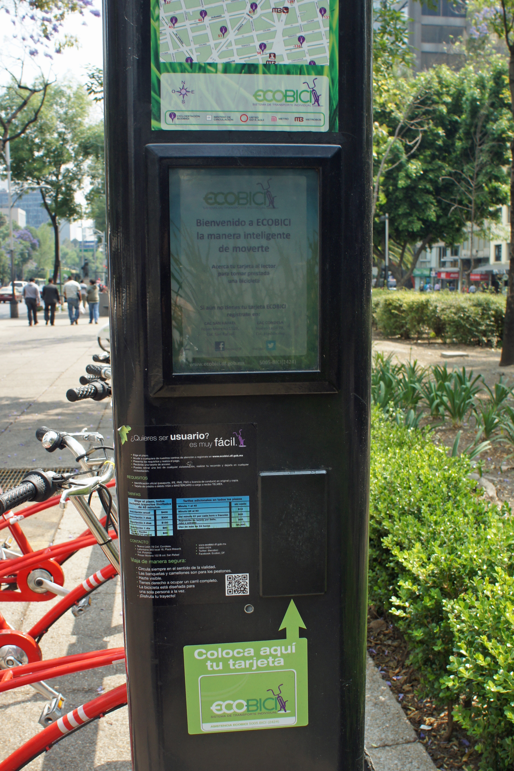 Ecobici payment totem (kiosk) at docking station 25, Paseo de la Reforma, Mexico City.